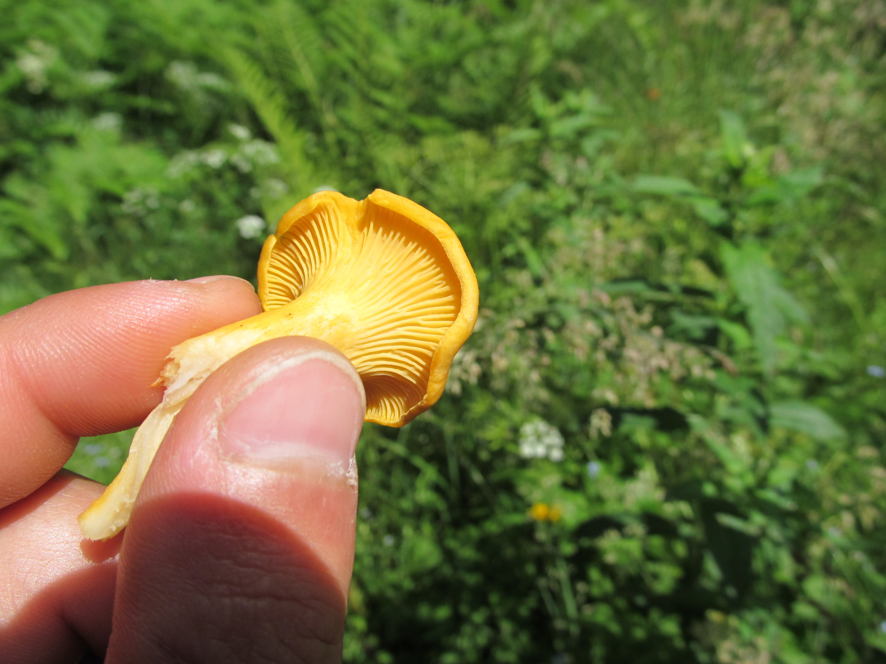 cantharellus cibarius